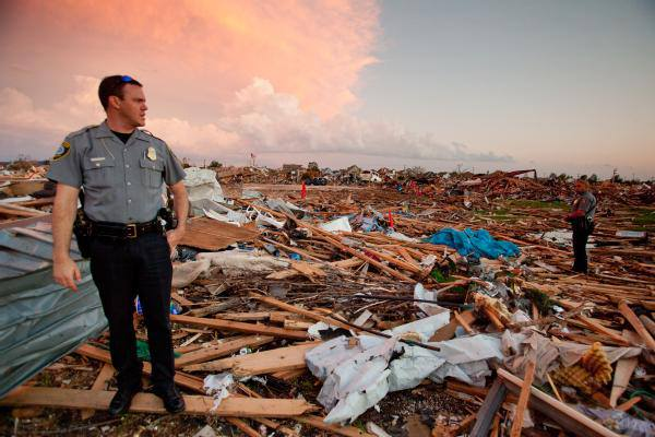 OCPD officer survey damage following the May 20th, 2013 tornado outbreak.